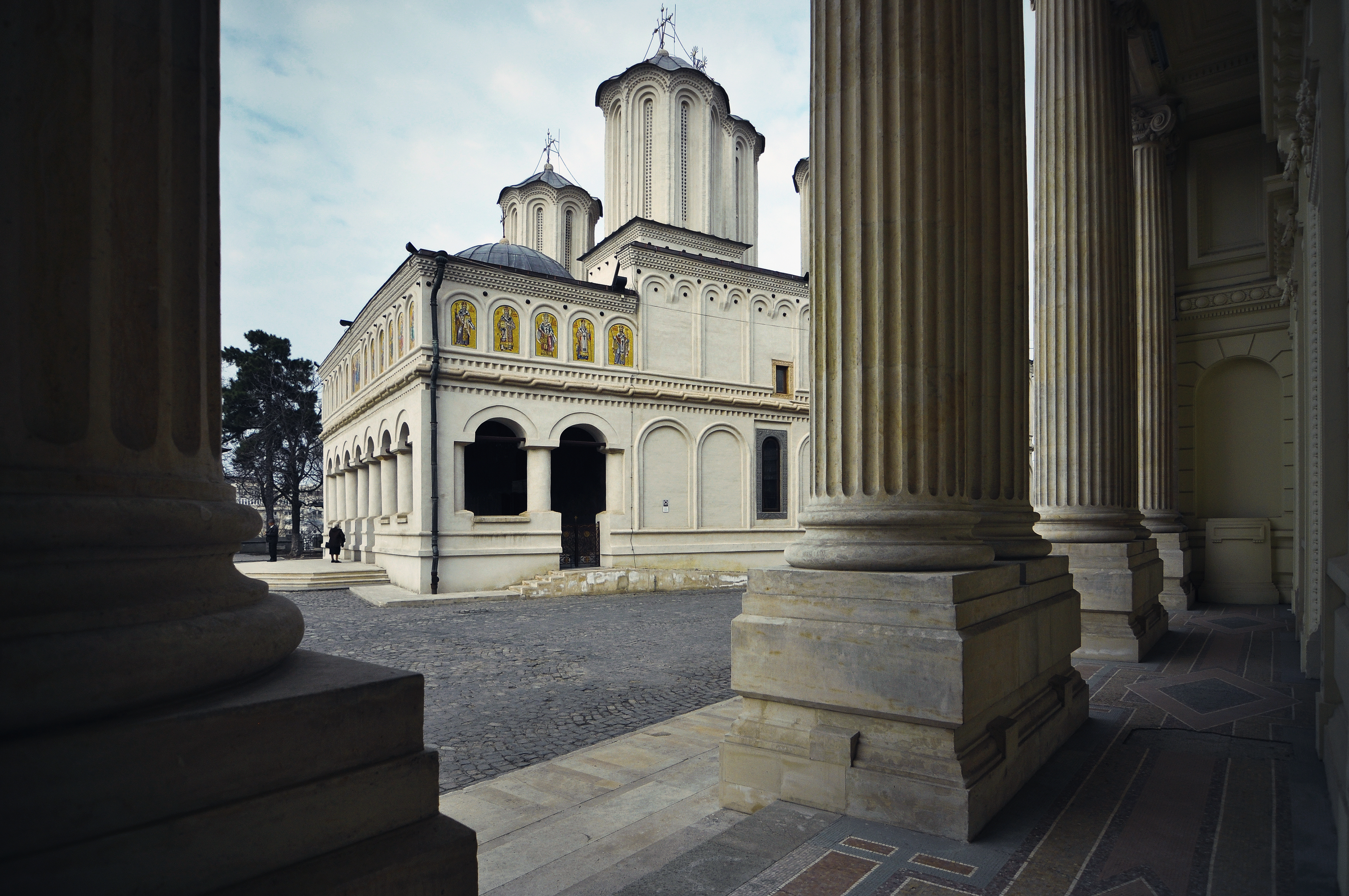 Patriarchal Cathedral, Bucharest finished in 1658 01